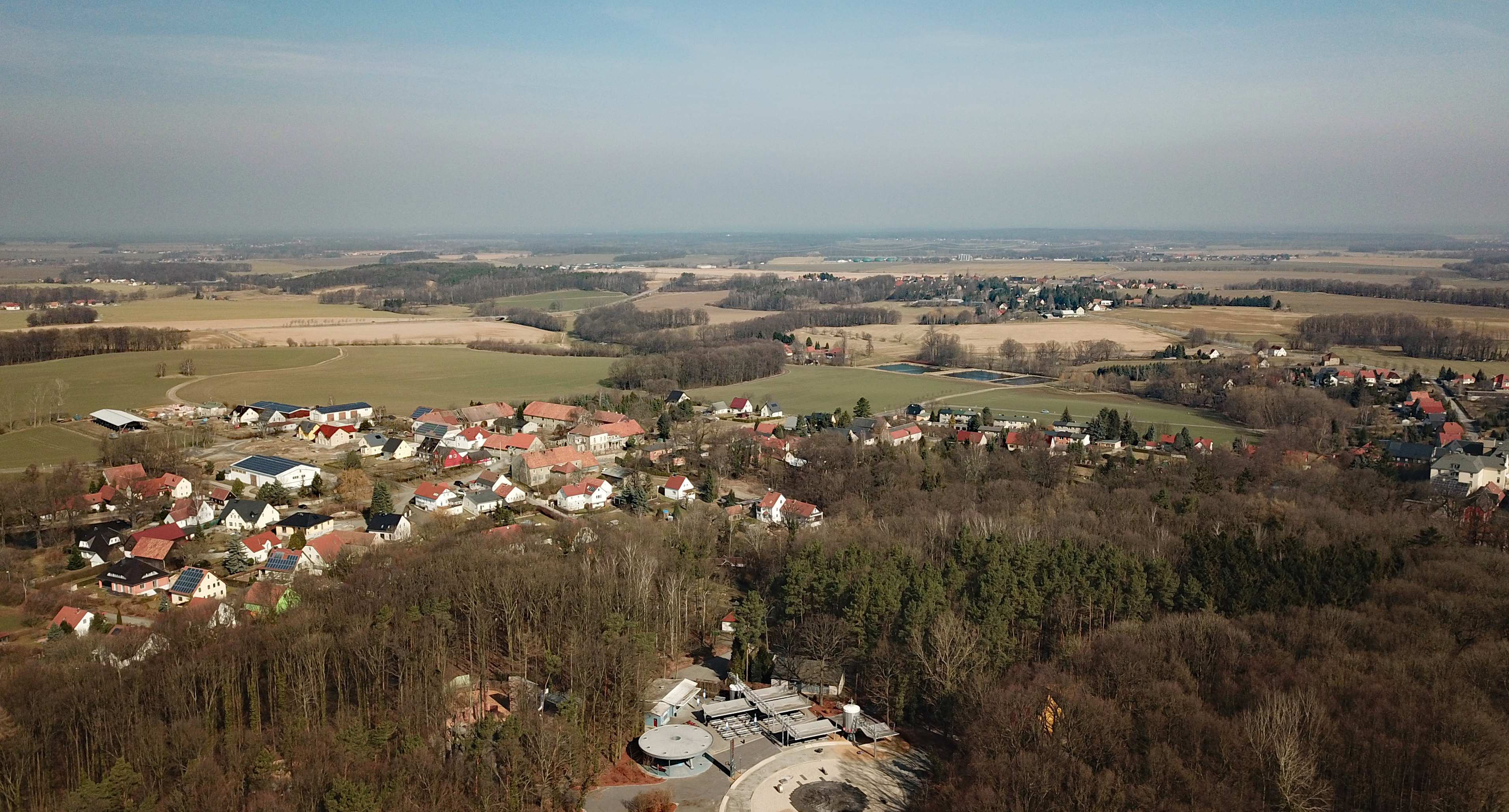 Großwelka (Bautzen, Saxony, Germany) Hornjoserbsce: Powětrowy wobraz Wulkeho Wjelkowa Dieses Foto wurde mit einem Quadcopter innerhalb der RMZ des Flugplatzes EDAB aufgenommen. Der Flugleiter wurde am Aufnahmetag telephonisch über Ort und Zeit informiert und hat zugestimmt. Der Flug erfolgte auf Grundlage der Allgemeinverfügung der Landesdirektion Sachsen zur Erteilung der Betriebserlaubnis für unbemannte Luftfahrtsysteme und Flugmodelle gemäß § 21a LuftVO und Zulassung von Ausnahmen von Betriebsverboten gemäß § 21b LuftVO für den Freistaat Sachsen.